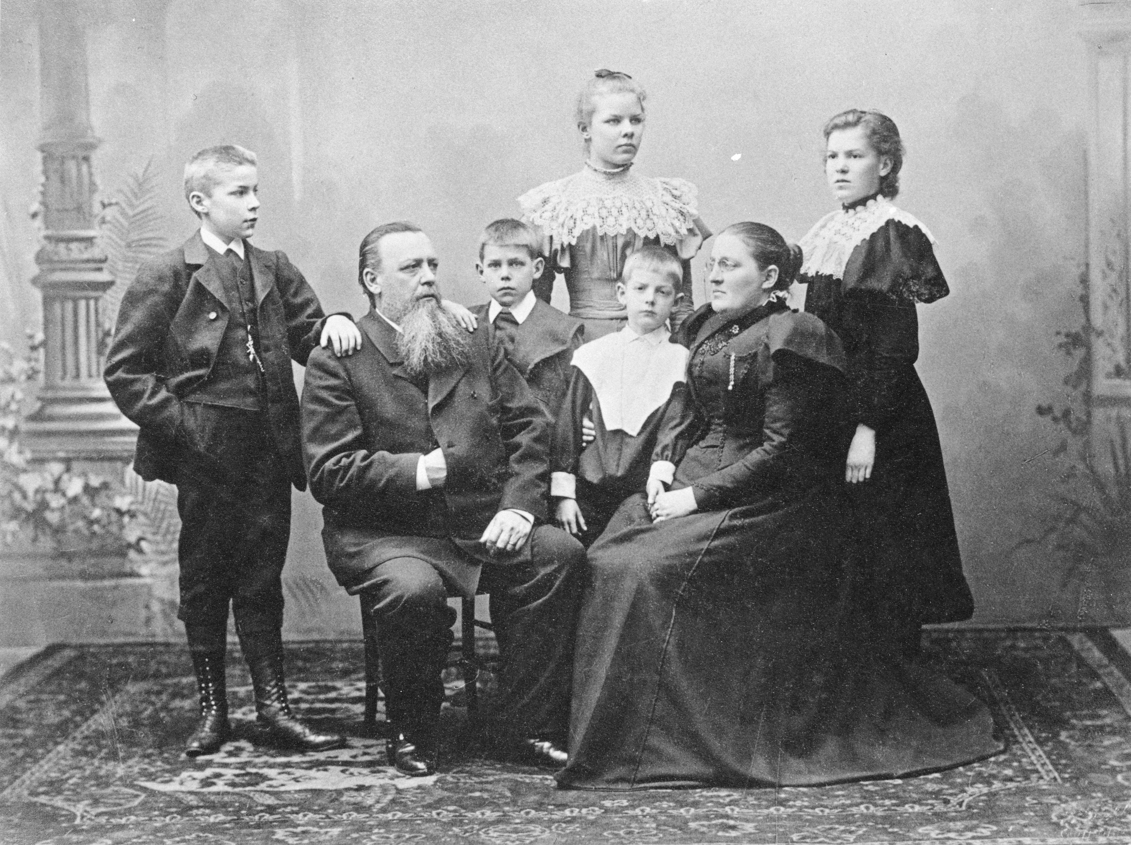 The Niska family in Viipuri 1896. Ivar and Hilda are sitting in the centre. The children from are from the left: Adolf, Bror, Algoth, Aina and Ester